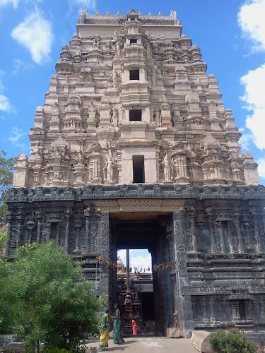 Chintala venkateswara swamy temple,in tadipatri mandal, anantapur district